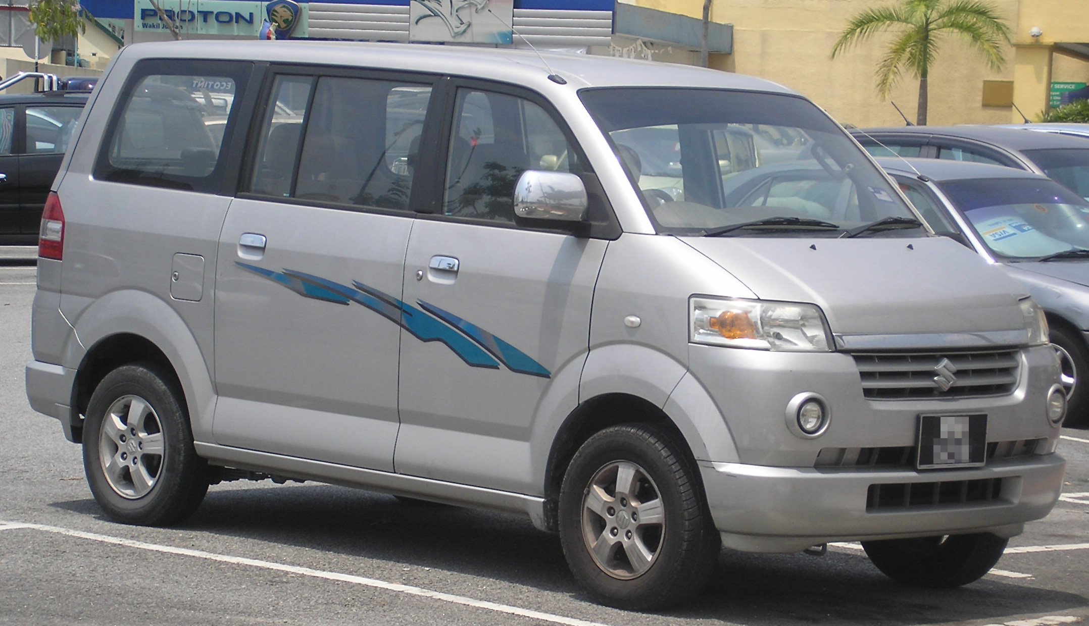 Front quarter view of a first generation Suzuki APV, in Serdang, Selangor, Malaysia.